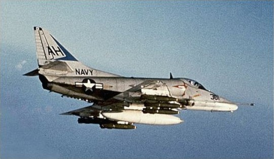 A U.S. Navy Douglas A-4E Skyhawk (BuNo 152100) of Attack Squadron 163 (VA-163) "Saints", circa 1966, armed with 227 kg (500 lb) Mk 82 "Snakeye" bombs. VA-163 was assigned to Attack Carrier Air Wing 16 (CVW-16) aboard the aircraft carrier USS Oriskany (CVA-34) for a deployment to Vietnam from 26 May to 16 November 1966. The A-4E 152100 (AH-301) was the personal aircraft of the squadron CO, (then) Commander Wynn F. Foster. It was lost on 23 July 1966 when Foster was flying his 163rd combat mission over Vietnam. When antiaircraft artillery hit the A-4E it severed his right arm at the elbow. Bleeding profusely, his still-gloved hand lying on the starboard console, Foster flew his plane out over the Tonkin Gulf and ejected. The plane crashed but Foster was picked up by the guided missile cruiser USS Reeves (DLG-24).